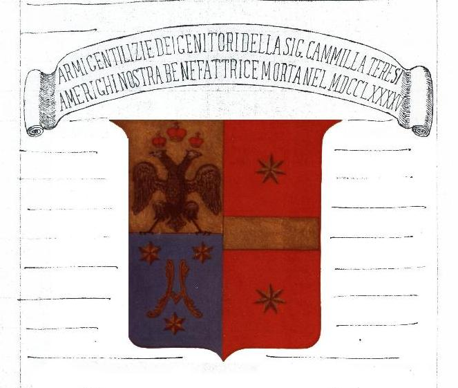 Coat of arms of Camilla Teresa Amerighi (Detail)